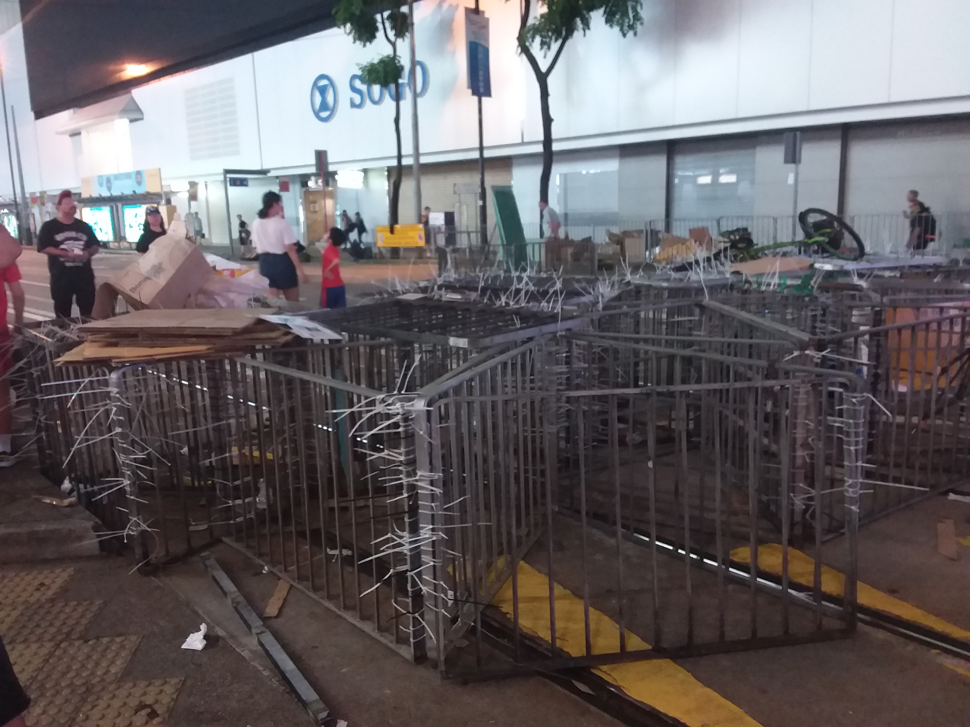 Black dark night 香港反對逃犯條例 Anti-HK bill demo against extradition bill protect CWB Yee Wo Street Hennessy Road July 2019